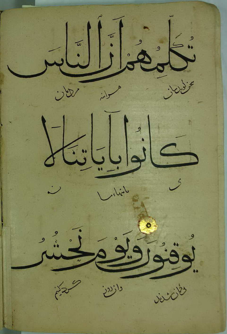 Fragmentary Quran, dateable to the 8rd/14th century.